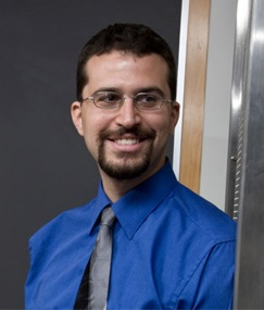 Photo of Erez Lieberman Aiden retrieved from a blog profile [1].